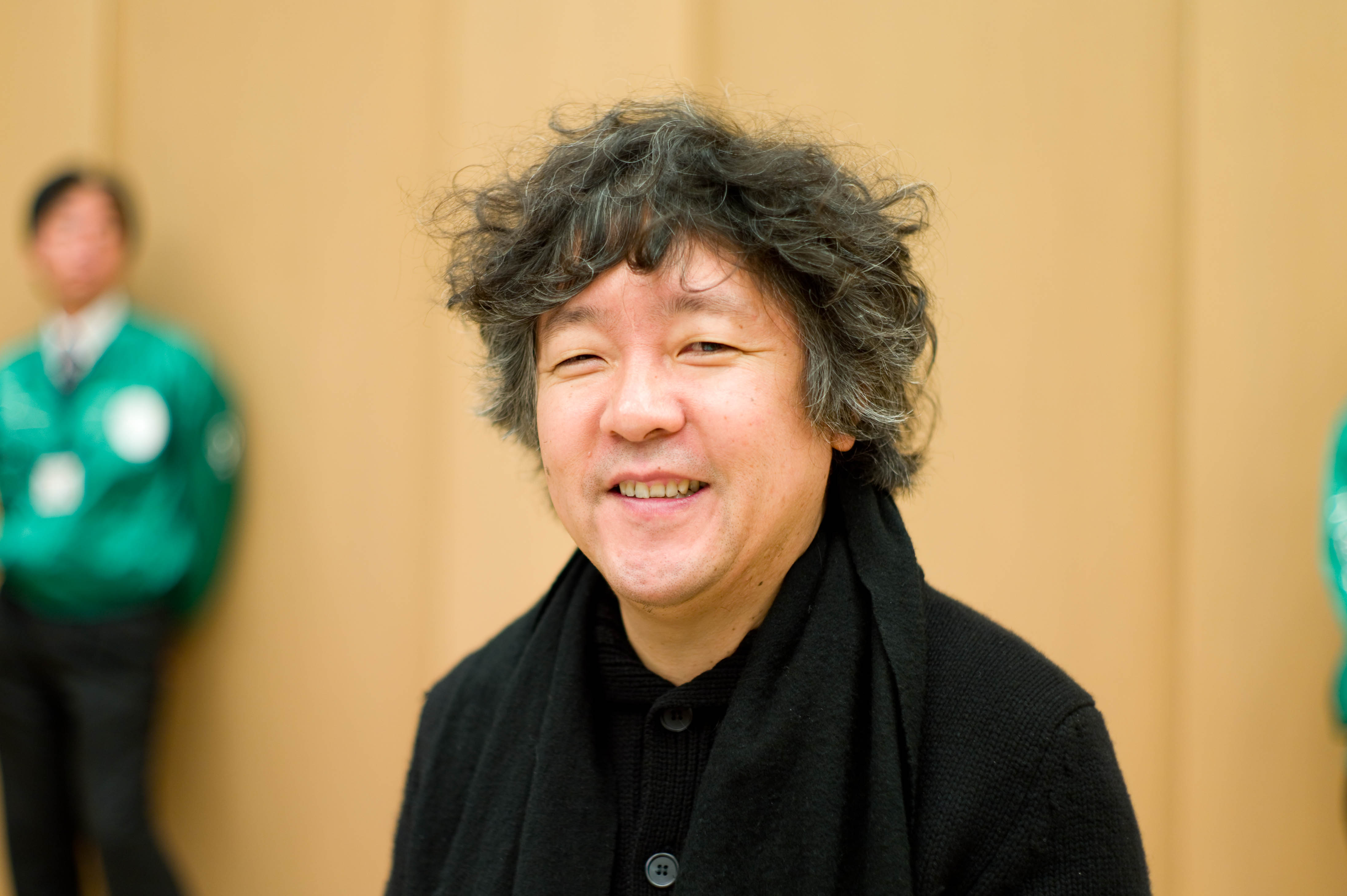 Ken'ichirō Mogi, Senior Researcher of the Sony Computer Science Laboratories, Inc., pose for photos in Kōchi Prefecture on November 29, 2009.